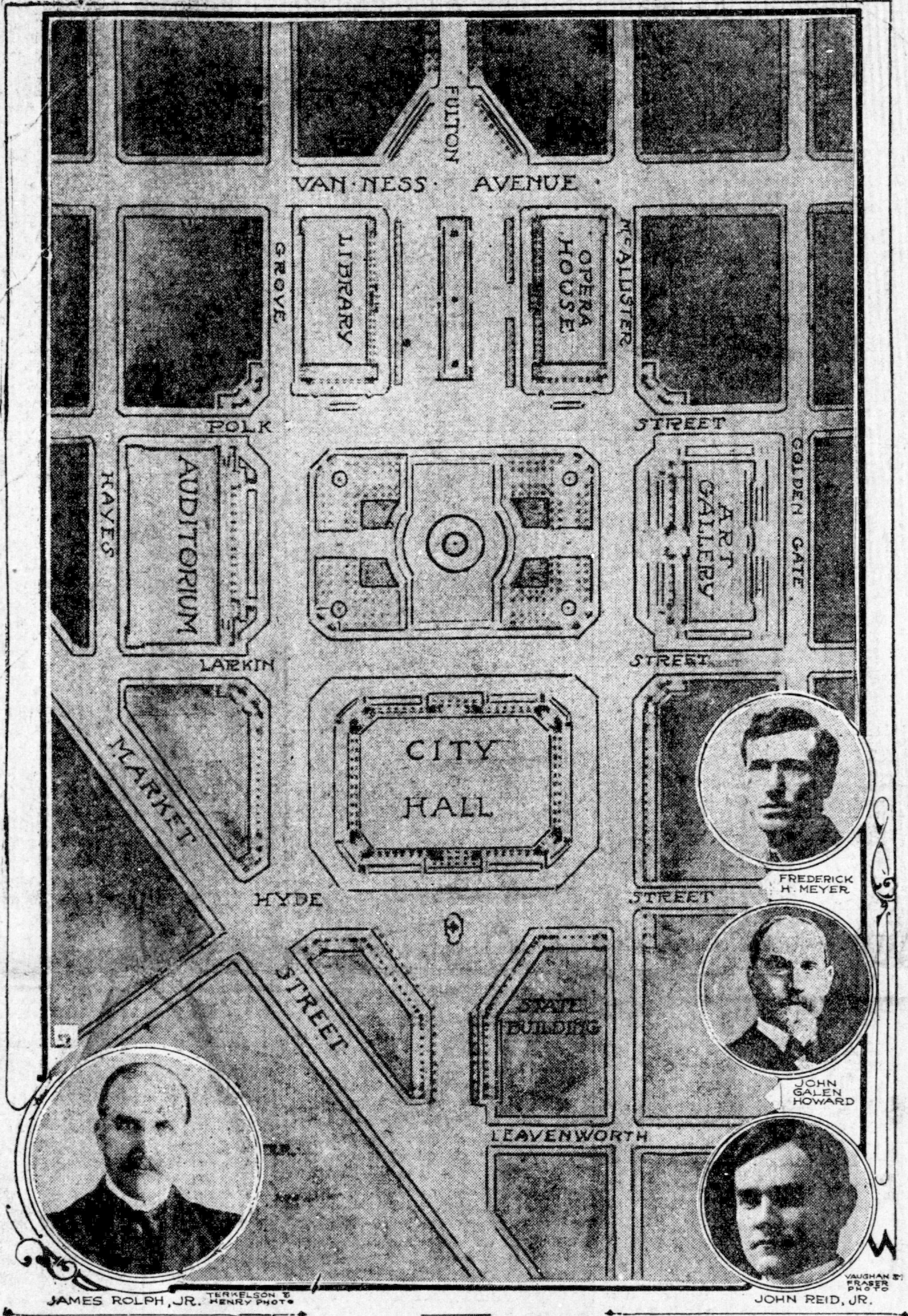 1912 plan for Civic Center in San Francisco promulgated by architects John Galen Howard, Frederick H. Meyer, and John Reid, Jr. Accompanies article detailing eminent domain proceedings to purchase land. Original caption that accompanied this composite photo illustration: "Plan showing the scheme of landscaping and architectural development of the civic center tract, according to the design of the city's advisory architectural commission, for which condemnation proceedings were begun yesterday, and (below) photographs of Mayor Rolph and the members of the architectural commission." Light editing performed in GIMP to improve contrast and lighten the original scan.